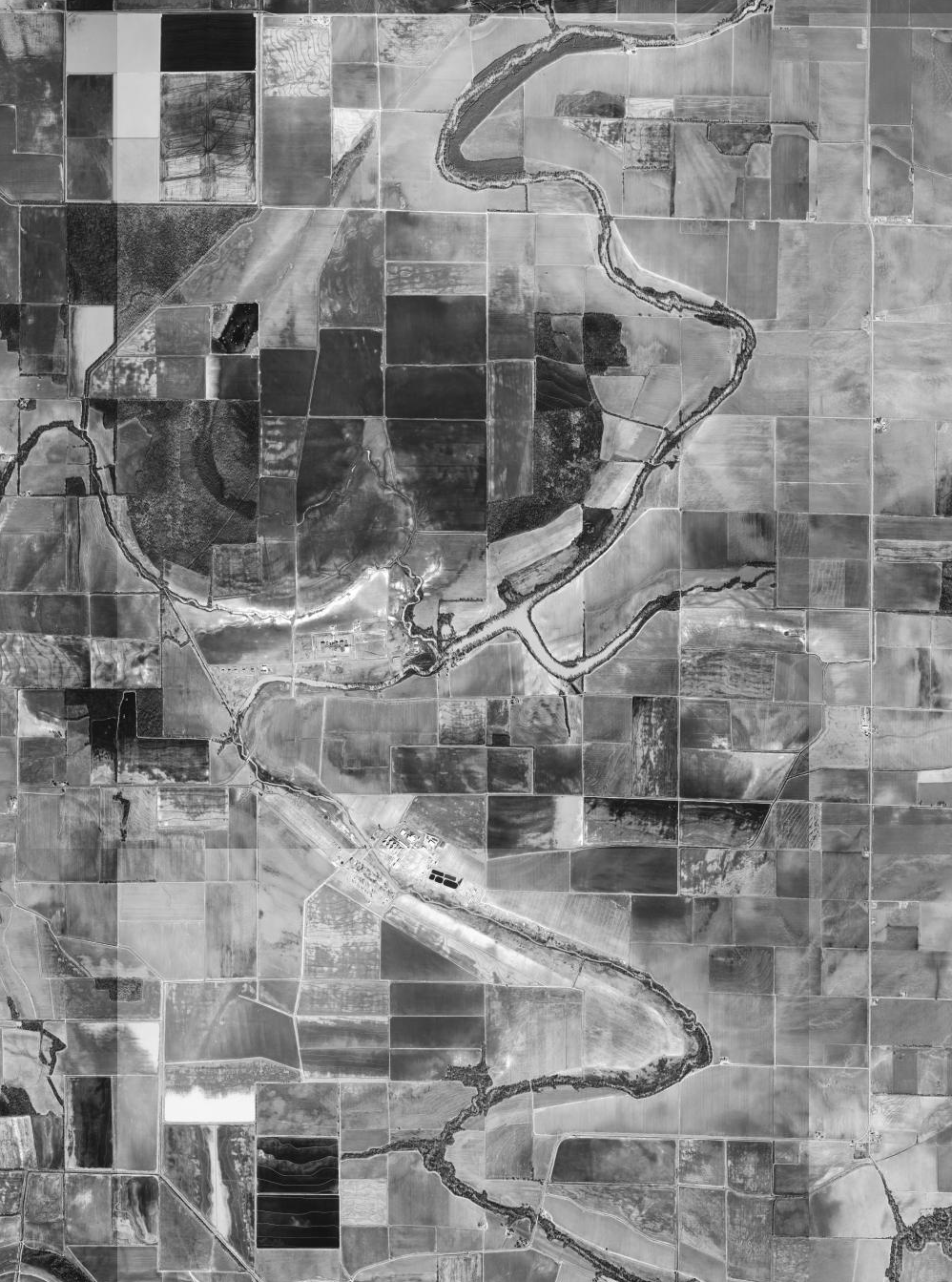 USGS orthophoto of the Tucker and Maximum Security units in Arkansas.